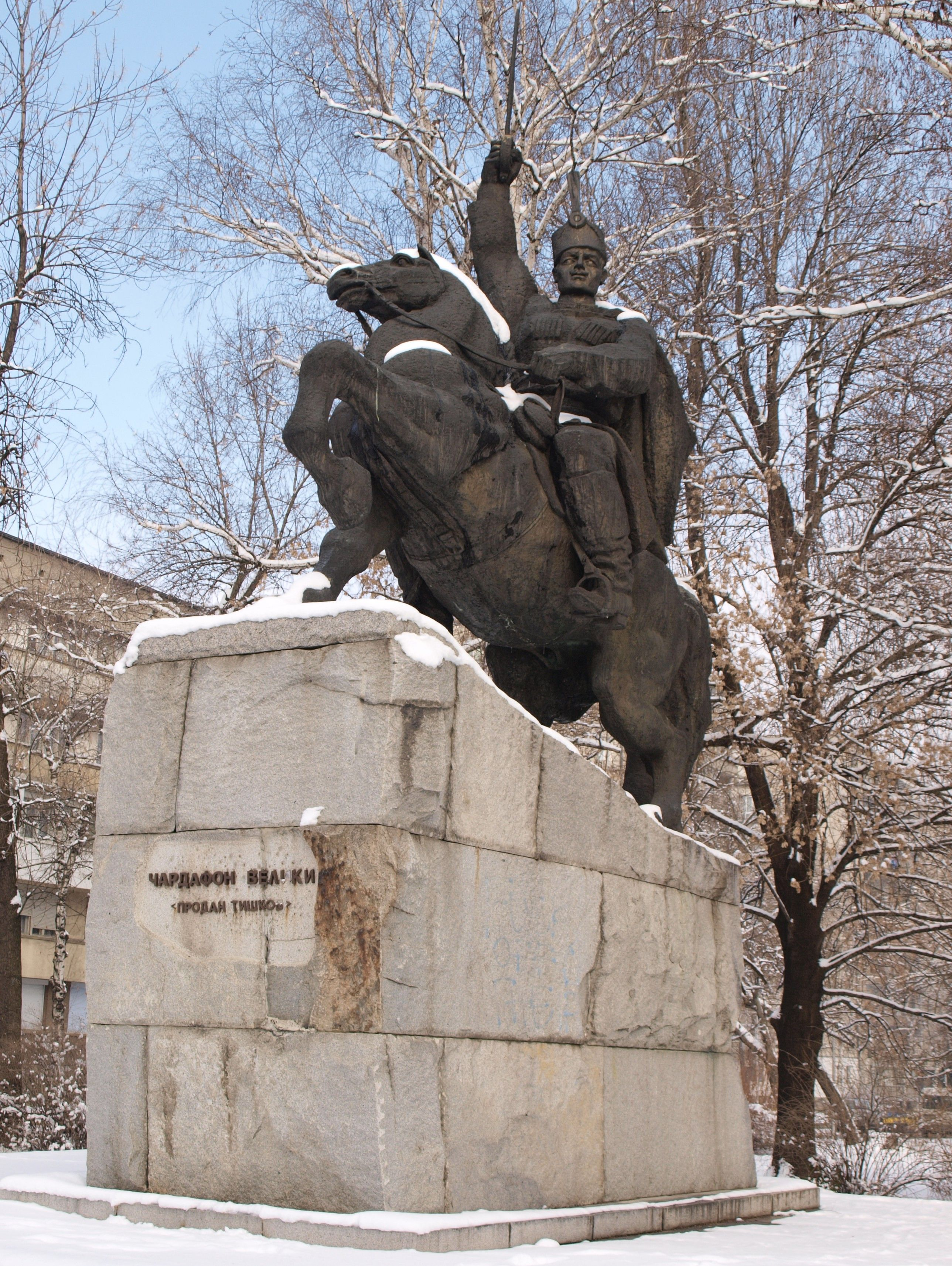 The monument of the Bulgarian revolutioneer and military leader Chardafon The Great (Prodan Tishkov) in Gabrovo, Bulgaria.